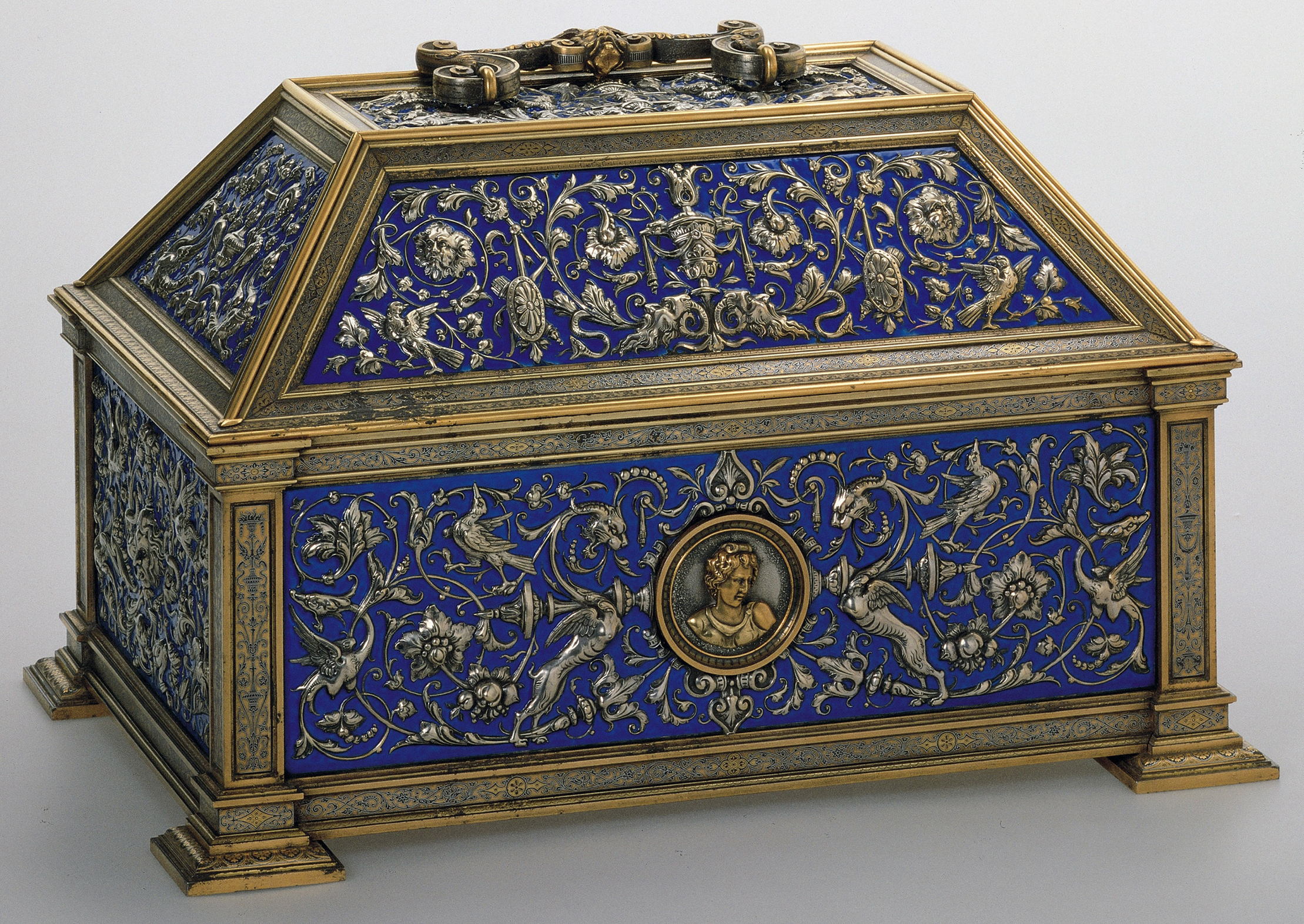 Bronze Gilt and Enamelled Casket by Plácido Zuloaga, from the Khalili Collections. Described at